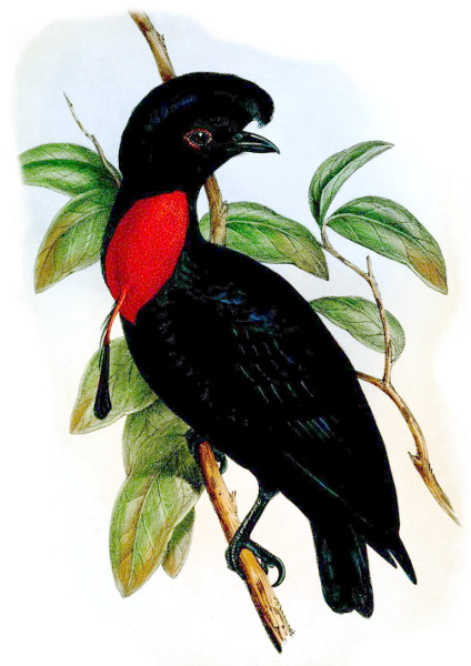 Bare-necked Umbrellabird, Cephalopterus glabricollis (male), lithograph